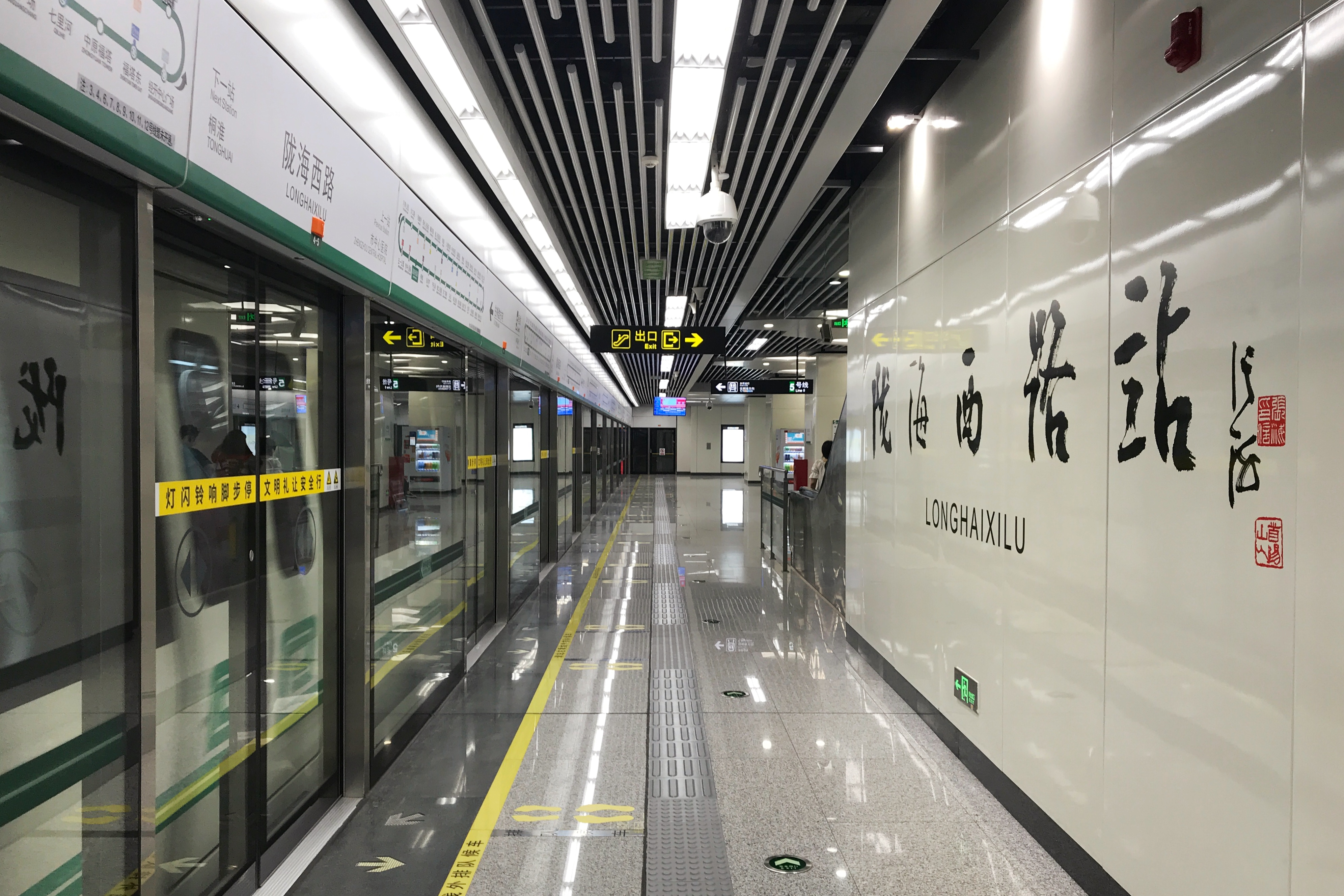 Platforms of Zhengzhou Metro Longhaixilu Station